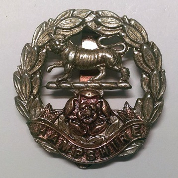 Photo of Royal Hampshire Regiment Cap Badge from personal collection